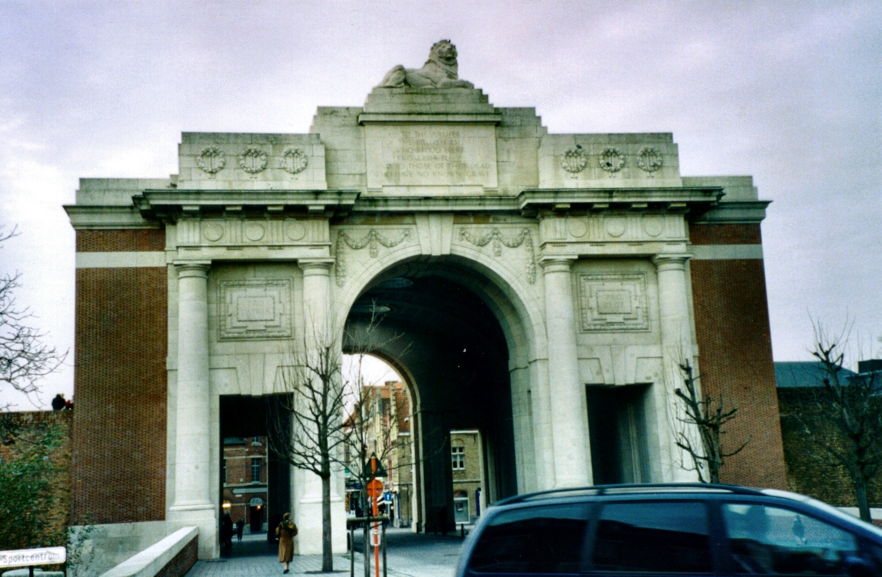 The Menin Gate memorial to the British Empire and Commonwealth war dead from World War I. Photograph by User:Redvers originally from wikipedia, now transferred to Commons. Note that the photograph has been altered by the author since the original upload and that the licence status has changed from Own Work GDFL to the more explicitly free Own Work Public Domain All Rights Released.